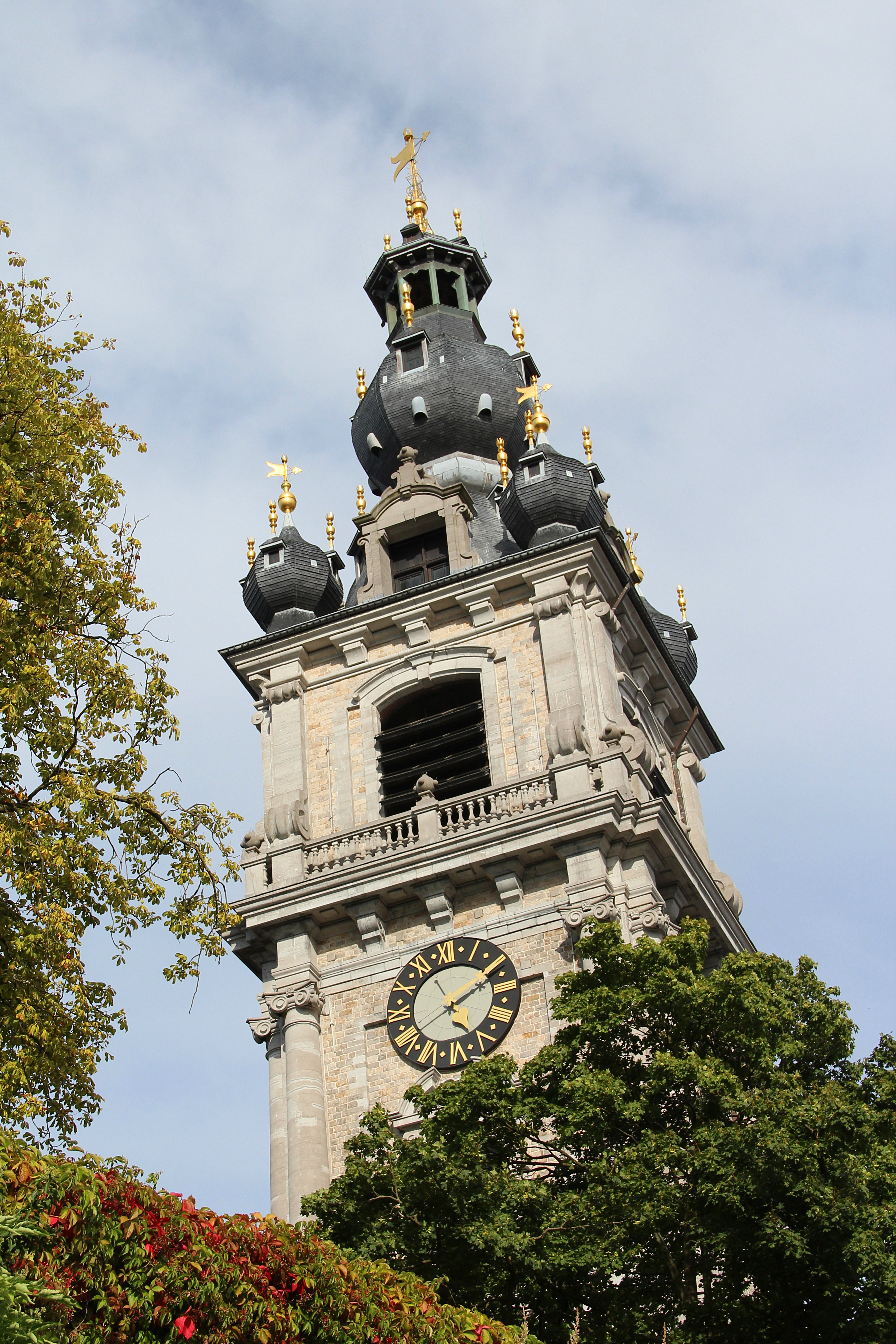 Mons (Belgium), roof and bell tower of the belfry (1661-1669).